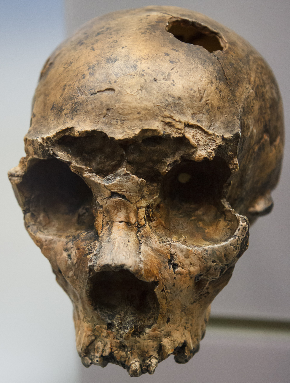 Crop of Media:National_Museum_of_Natural_History_(8587341141).jpg